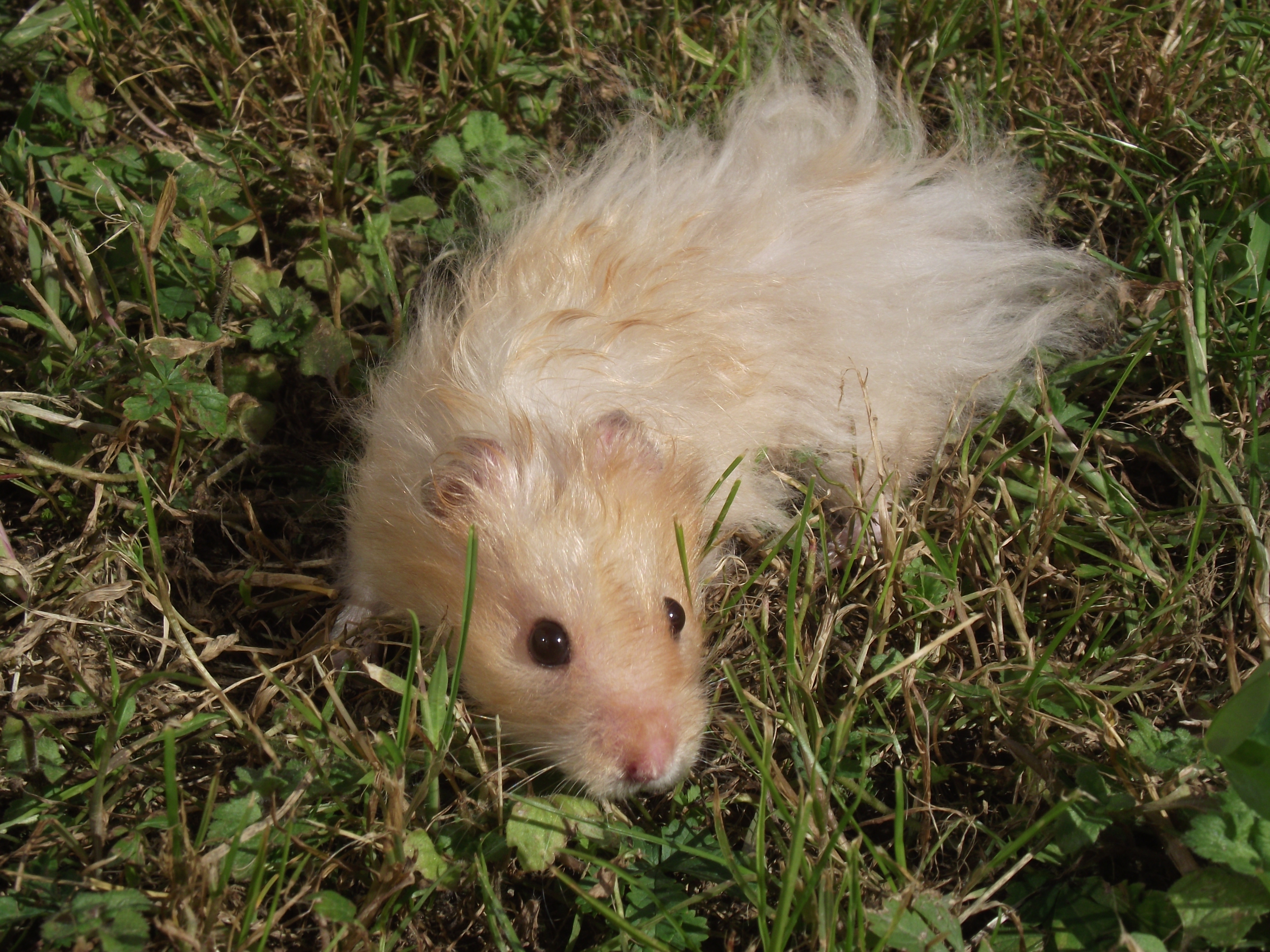 Golden hamster